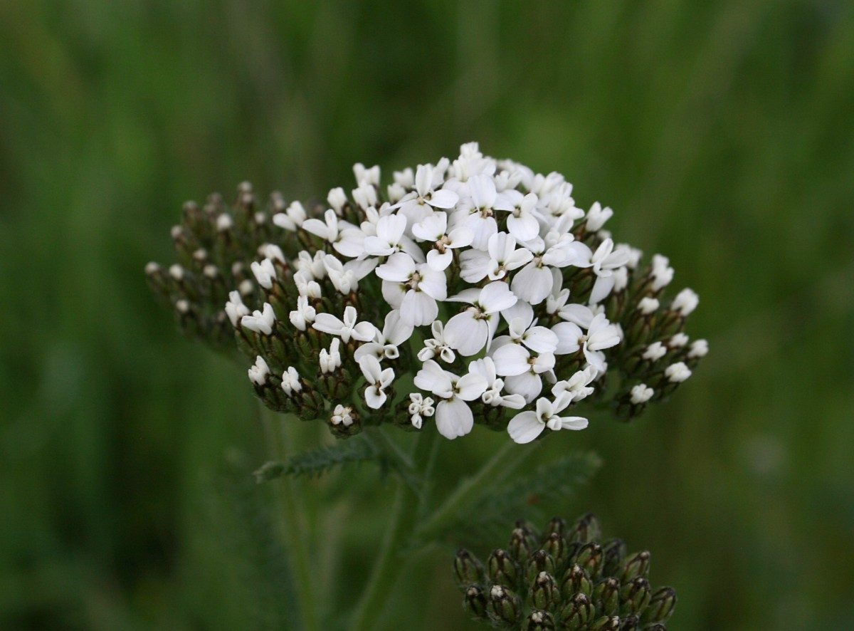 Yarrow (Achillea millefolium’’) — found at Los Vaqueros Reservoir in Brentwood, Contra Costa County, California.